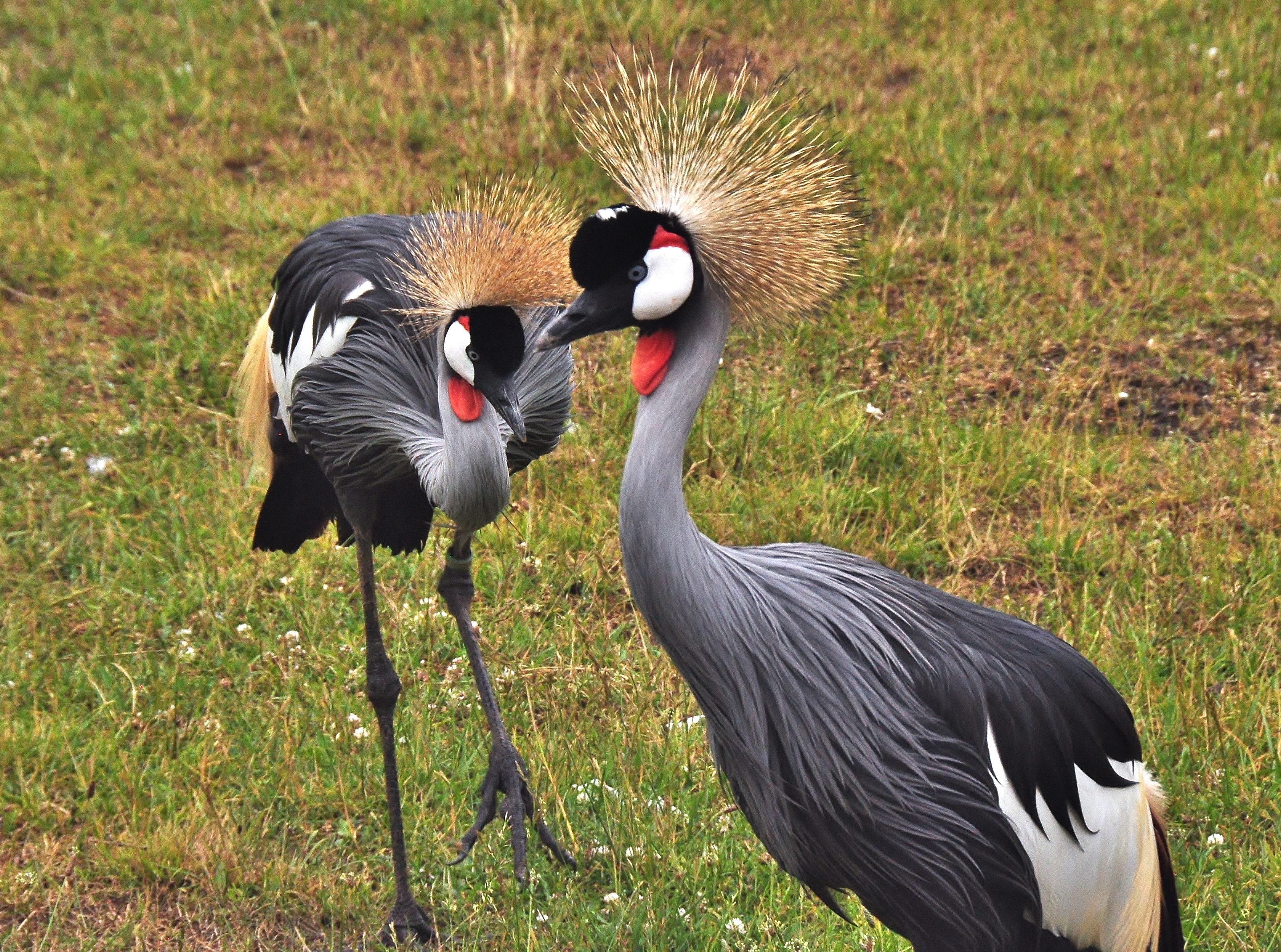 Grey Crowned Cranes Balearica regulorum in Lion Safari Zoo near Hamilton, Ontario, Canada